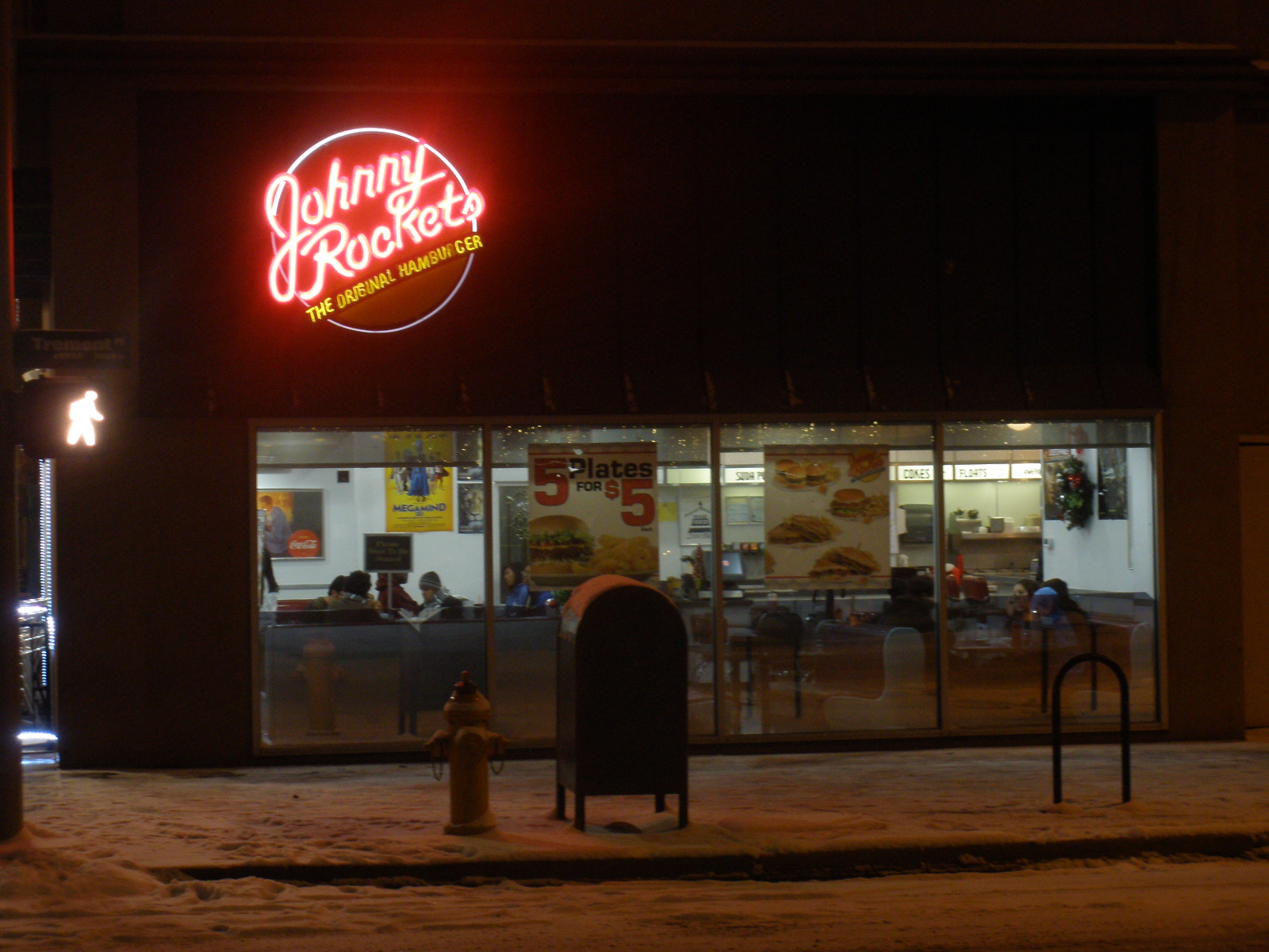 Johnny Rockets diner on 16th Street at Tremont Place, in Denver